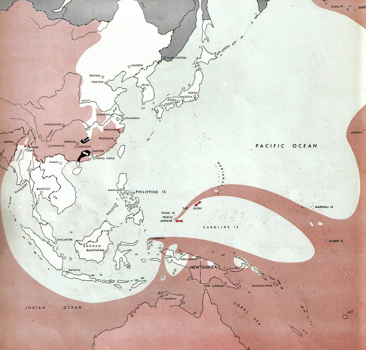 Map of the front against Japan as of 1 Oct 1944: This map is taken from the source "Atlas of the World Battle Fronts in Semimonthly Phases to August 15th 1945: Supplement to The Biennial report of The Chief of Staff of the United States Army July 1, 1943 to June 30 1945 To the Secretary of War". (See Cover, Forward and Map details)